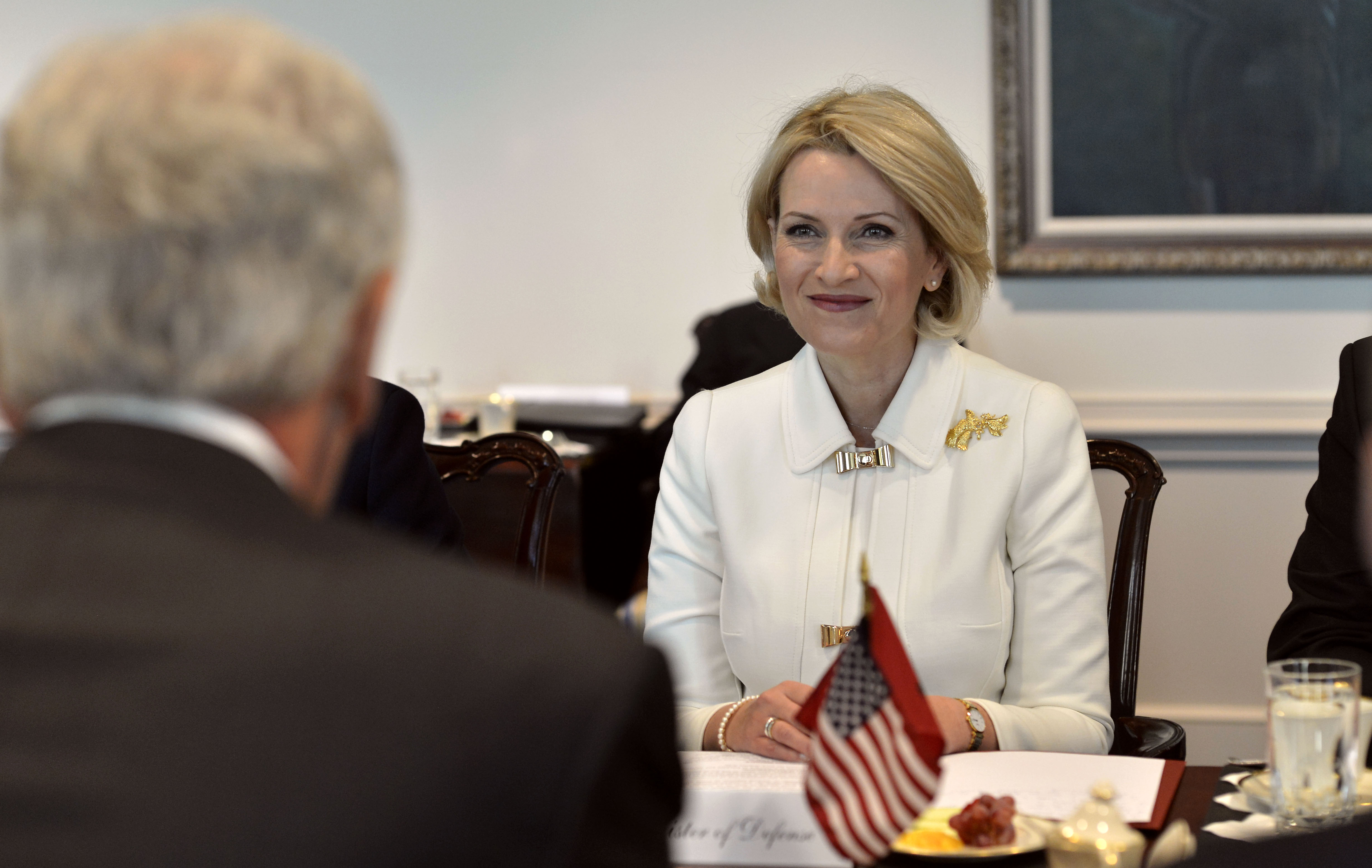 The Minister of Defense of Albania Mimi Kodheli listens as Secretary of Defense Chuck Hagel makes opening comments during a meeting at the Pentagon Oct. 30, 2014. DoD photo by Glenn Fawcett (Released)